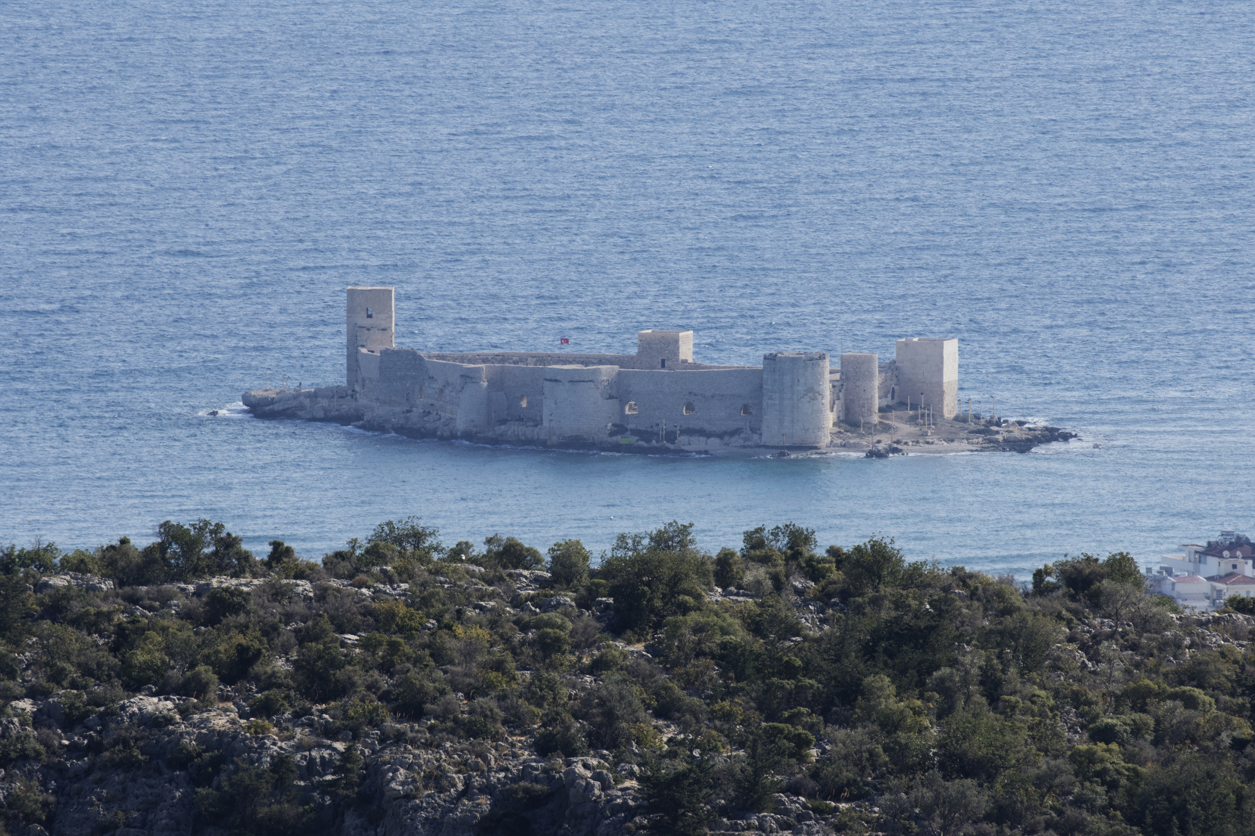 From Adamkayalar, a northwestern view of Kızkalesi (Korykos). Kızkalesi, Erdemli, Mersin - Turkey.